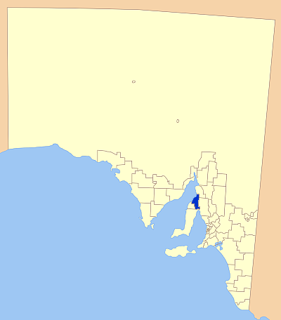 Map of South Australia showling the location of the Barunga West Local Government Area. A modification of GDFL map by Astrokey44; found here: File:SA_LGA_blank.png